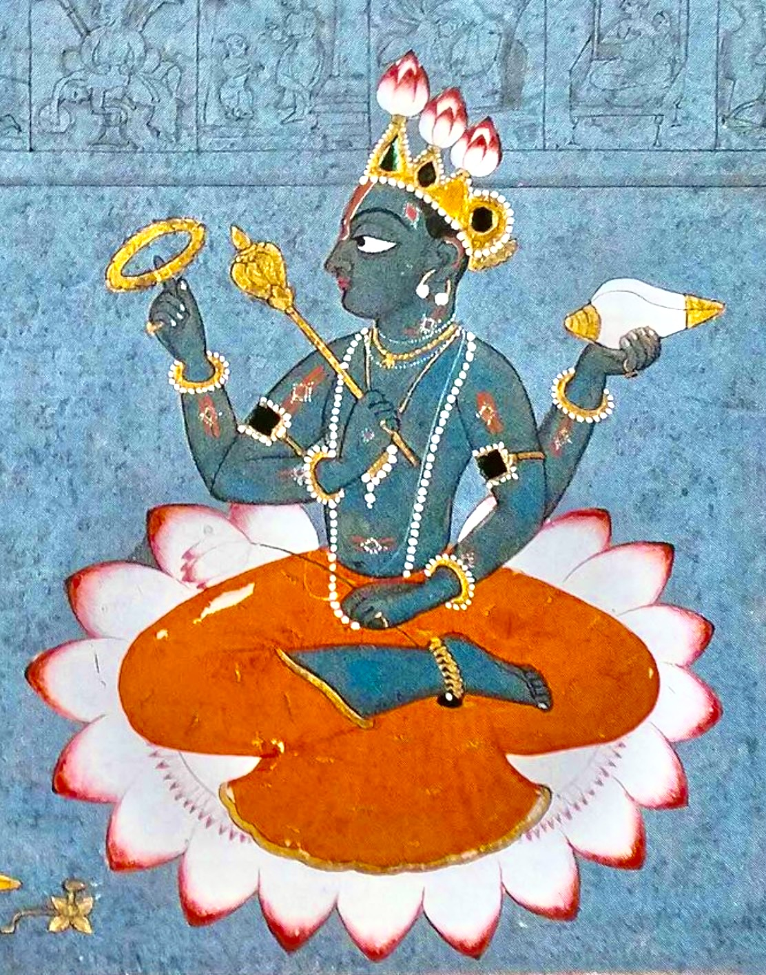 Closeup of Vishnu, seated in the lotus position on a lotus. From depiction of the poet Jayadeva bowing to Vishnu, Gouache on paper Pahari, The very picture of devotion, bare-bodied, head bowed, legs crossed and hands folded, Jayadeva stands at left, with the implements of worship placed before the lotus-seat of Vishnu who sits there, blessing the poet.